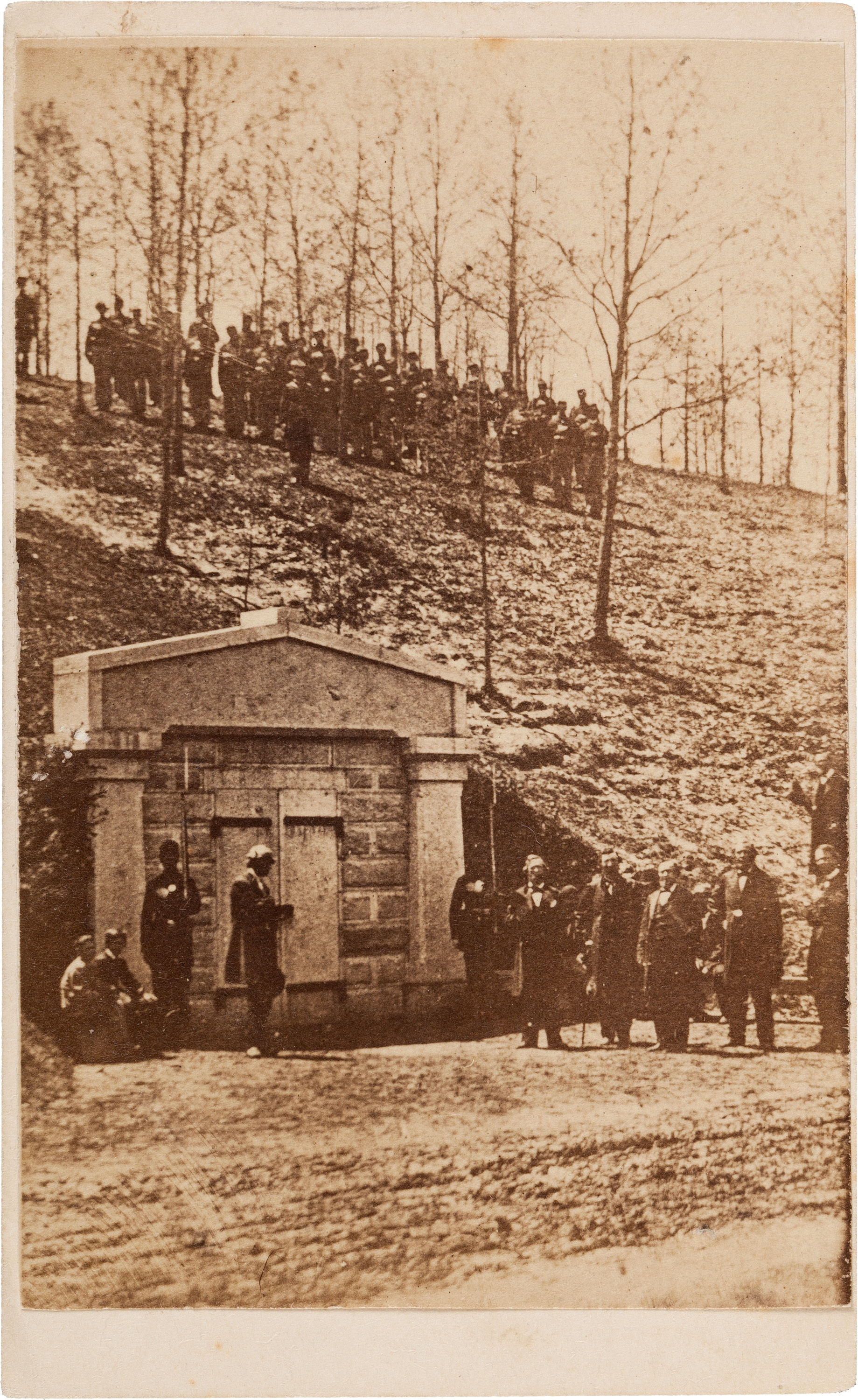 Carte-de-visite showing soldiers posted at the receiving vault at Oak Ridge Cemetery in Springfield. Five civilians, likely a committee of arrangements, stand to the right.